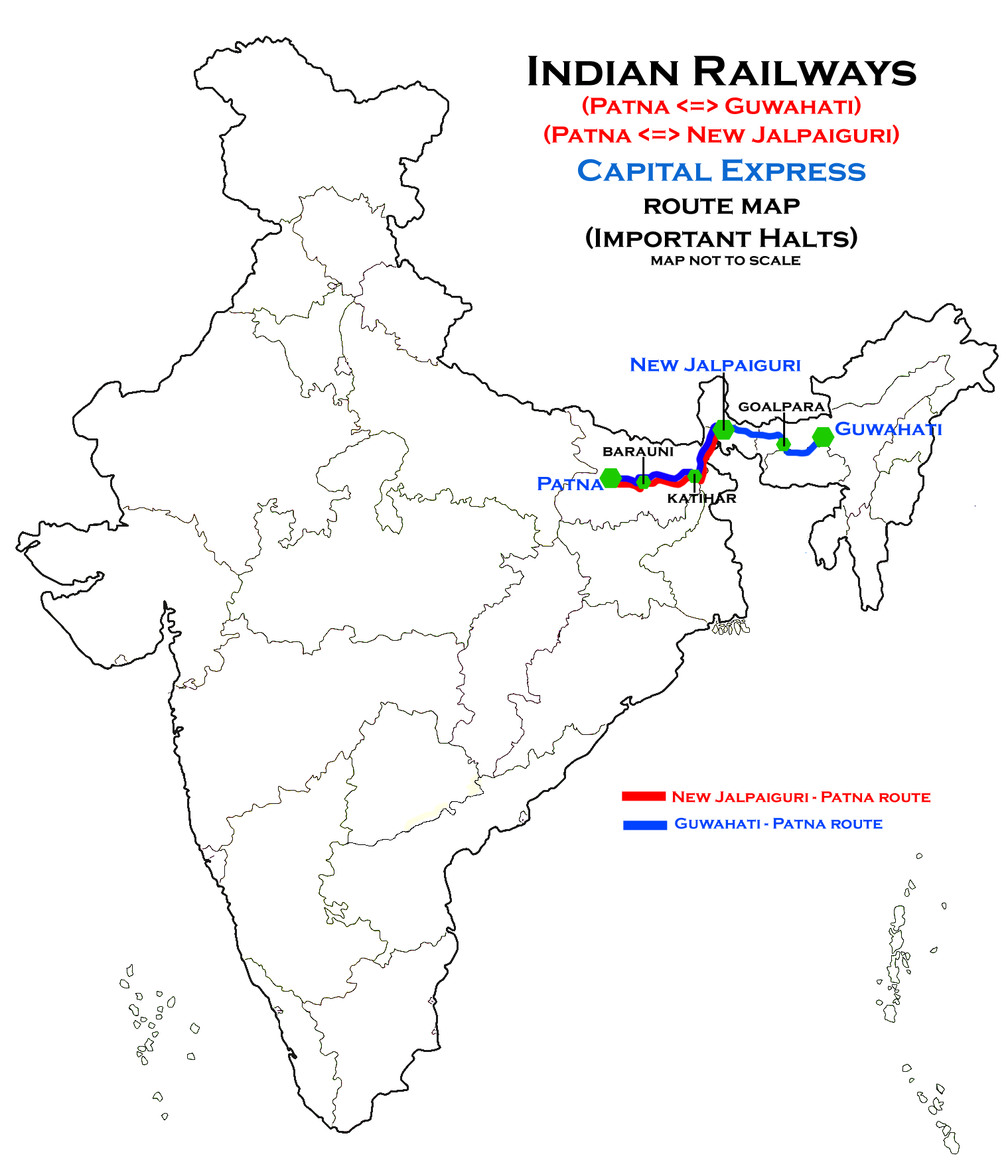 Capital Express (Rajendranagar Patna - Guwahati) (Rajendranagar Patna - New Jalpaiguri) route map